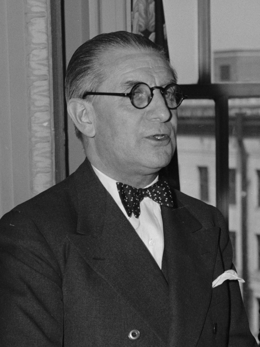 New Spanish Charge D'Affaires guest of National Press Club in first public appearance. Washington, D.C., April 13. Juan Francisco Cardenas, recently appointed Charge D'Affaires of the Spanish Embassy under the Franco Regime, today made his first public appearance when he spoke to members of the National Press Club at a special luncheon in his honor. 4-13-39